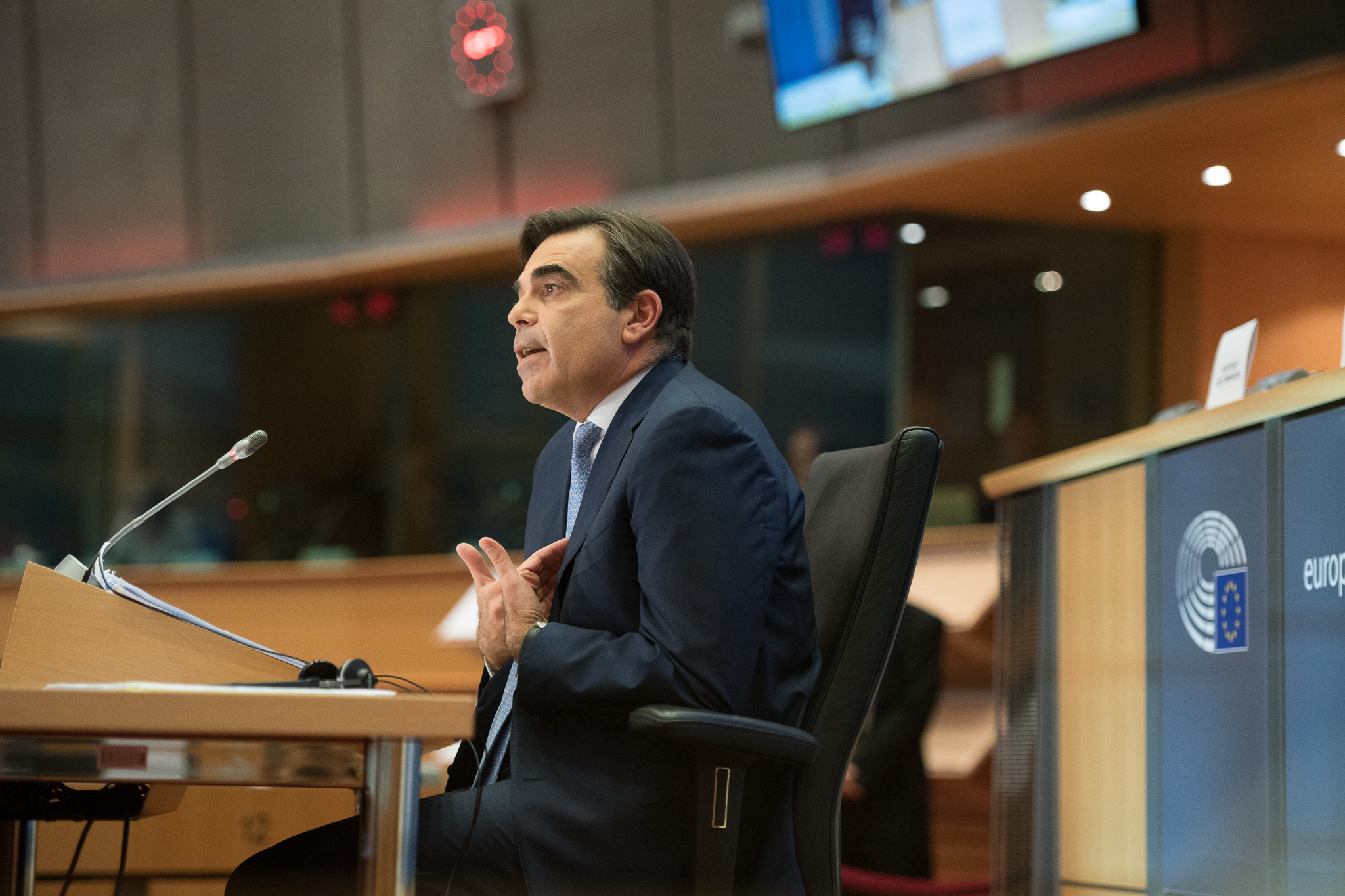 Before the European Parliament can vote the new European Commission led by Ursula von der Leyen into office, parliamentary committees will assess the suitability of commissioners-designate. On 23-26 May, more than 200,000,000 people in 28 EU countries went to the polls to elect members of the European Parliament, giving them a strong democratic mandate, including voting into office the new European Commission and examining the competencies and abilities of its commissioners-designate. Elected members of the European Parliament will also listen to their ideas and will assess their willingness to take concrete actions on the issues that Europeans care about. Each candidate commissioner is invited for a live-streamed, three-hour hearing in front of the committee or committees responsible for their proposed portfolio. The hearings will take place between Monday 30 September and Tuesday 8 October. This photo is free to use under Creative Commons license CC-BY-4.0 and must be credited: "CC-BY-4.0: © European Union 2019 – Source: EP". No model release form if applicable. For bigger HR files please contact: webcom-flickr(AT)